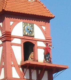 Photo taken mid-July 2006 by Wikipedia user 'glomph', depicting the Dietemann, a mechanical trumpet-blower who appears hourly at the Eschwege Castle clock tower.